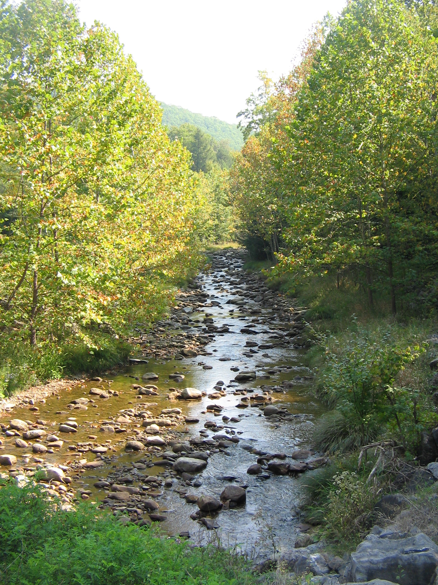 Bear Creek, in Plunketts Creek Township, Pennsylvania, United States, looking upstream from Pennsylvania Route 87 bridge in the village of Barbours